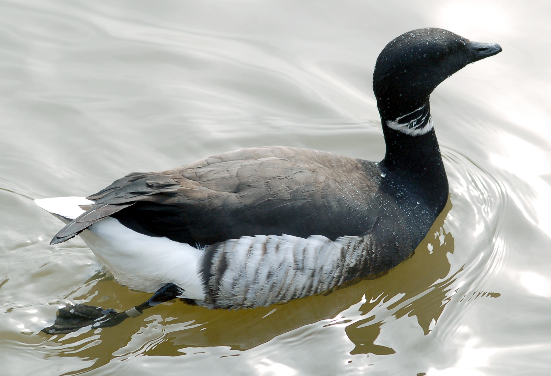 Black Brant (Branta bernicla orientalis on the Slimbridge information board but B.b.nigricans in Wikipedia), at Slimbridge Wildfowl and Wetlands Centre, Gloucestershire, England. Photographed by Adrian Pingstone in March 2007 and placed in the public domain.